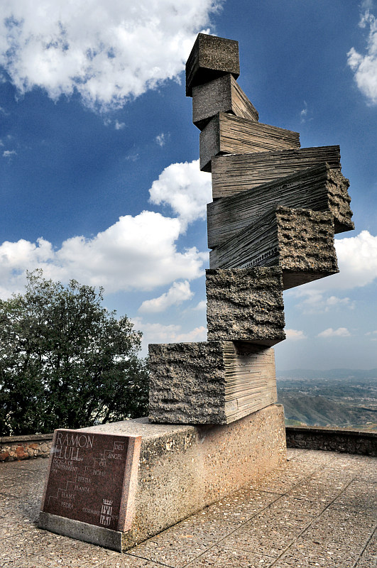 Modern monument to the Catalan poet and mystic Ramón Llull in Montserrat, Spain.